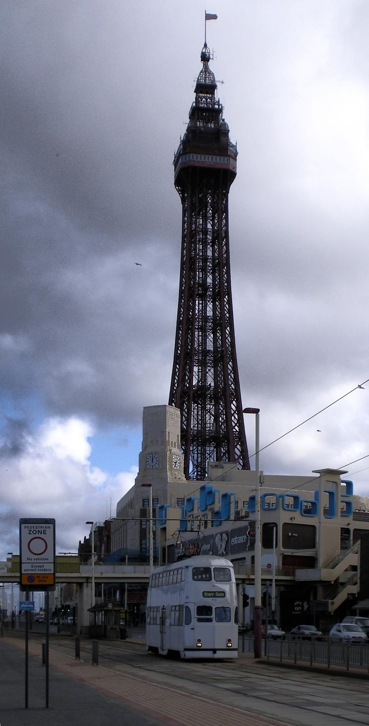 A double-decker tramway in Blackpool, England, UK.